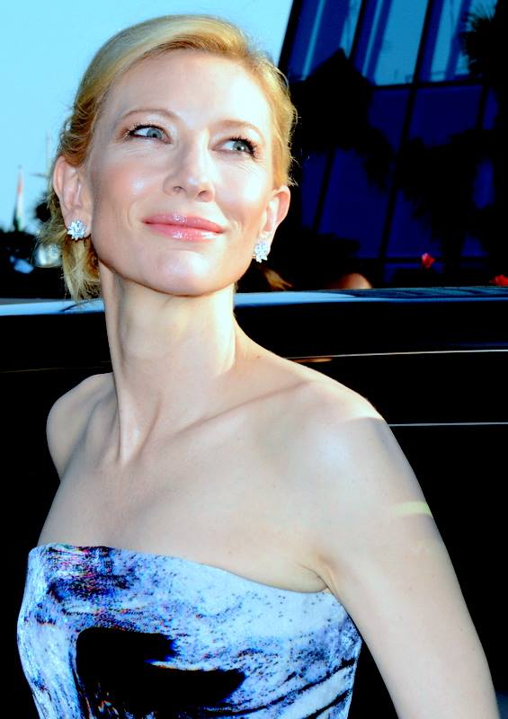 Cate Blanchett at the Cannes film festival